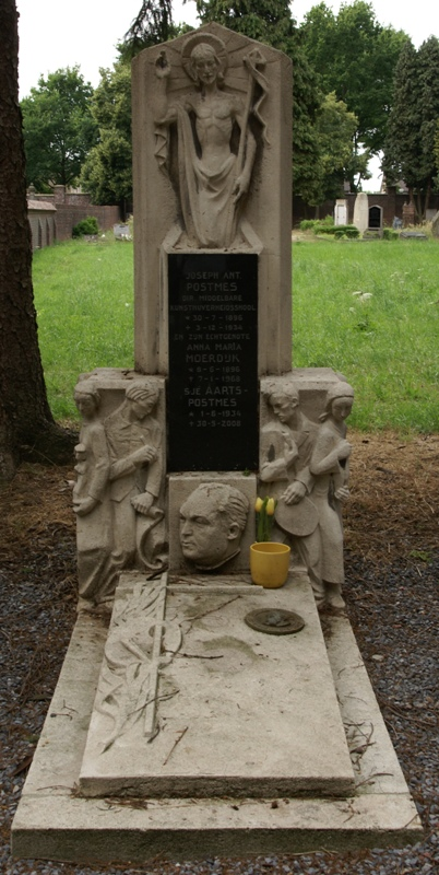 Grave of Joseph Antonius Postmes (1896-1934), artist. Cemetary Tongerseweg, Maastricht, The Netherlands